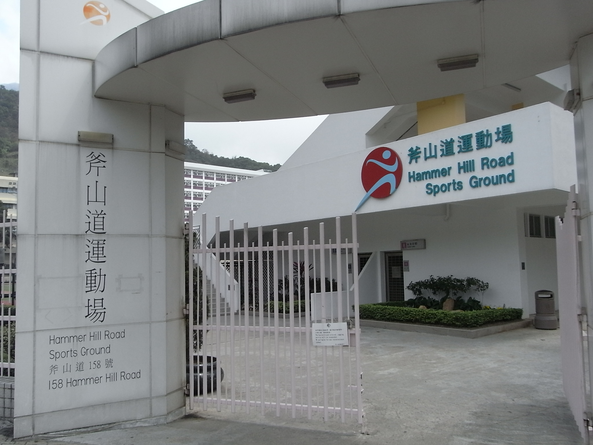 zh:2010年 康樂及文化事務署 斧山道運動場 正門入口